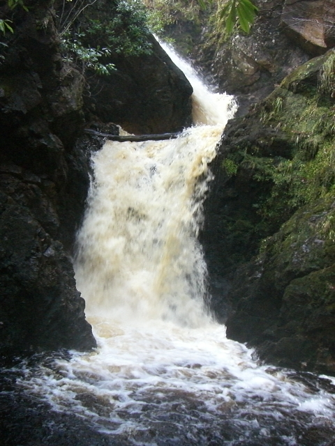 "Big Burn" falls After a rather wet week!